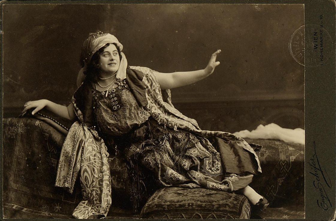 Hedwig Francillo-Kaufmann as a soloist of Vienna Court Opera